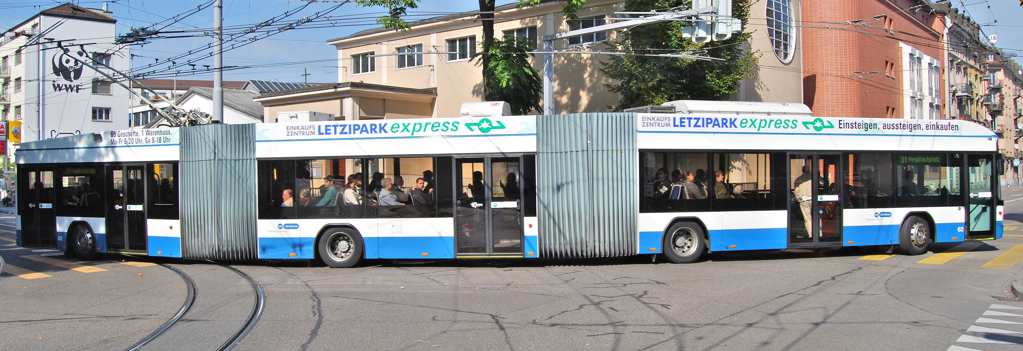 LighTram3 of Carrosserie Hess AG / Line 31 in Zürich.